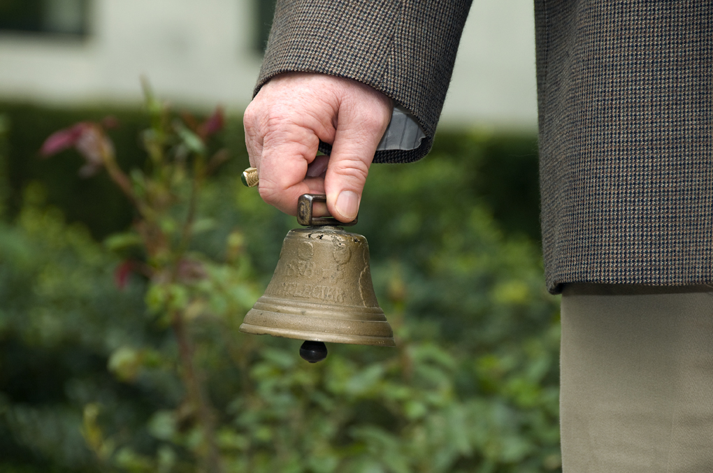 The ringing of a bell traditionally means the fallen worker has completed his or her last shift and has returned home. The bell sounded for Jeffrey Lewis, Mike Yankey and Paul Ewers.